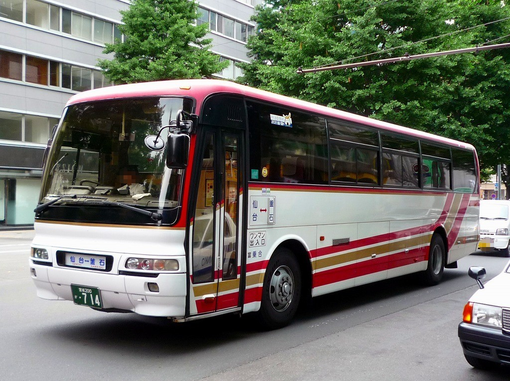 Miyagi kotsu Mitsubishi Fuso Aero BusHighwaybus Sendai-Kamaishi